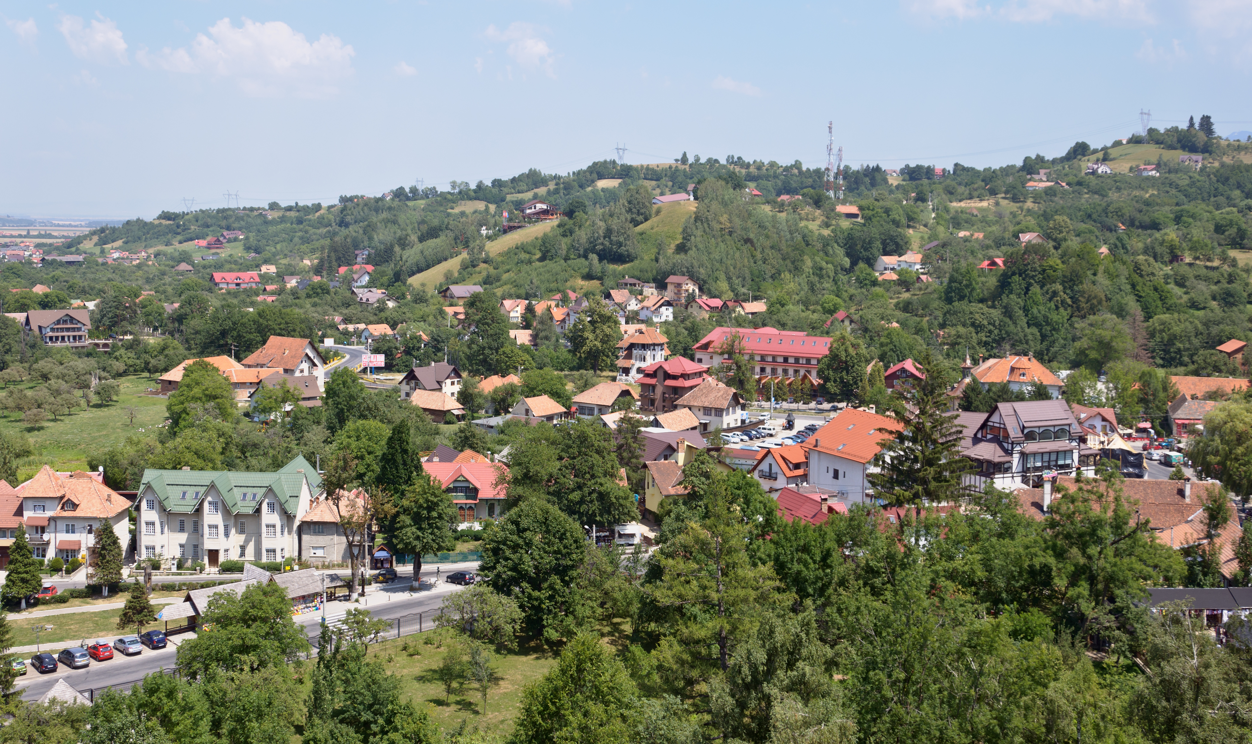 Bran, seen from Bran Castle, in Braşov County, Transylvania, Romania.